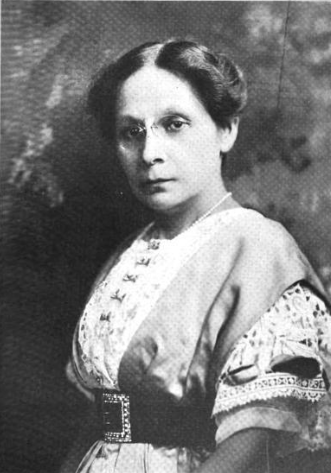 Rosa La Flesche Other information No.